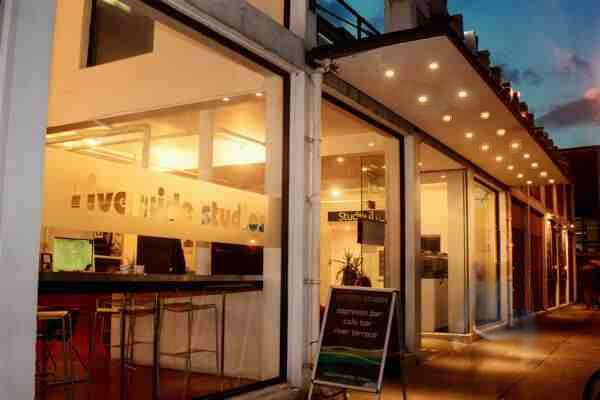 Riverside Studios